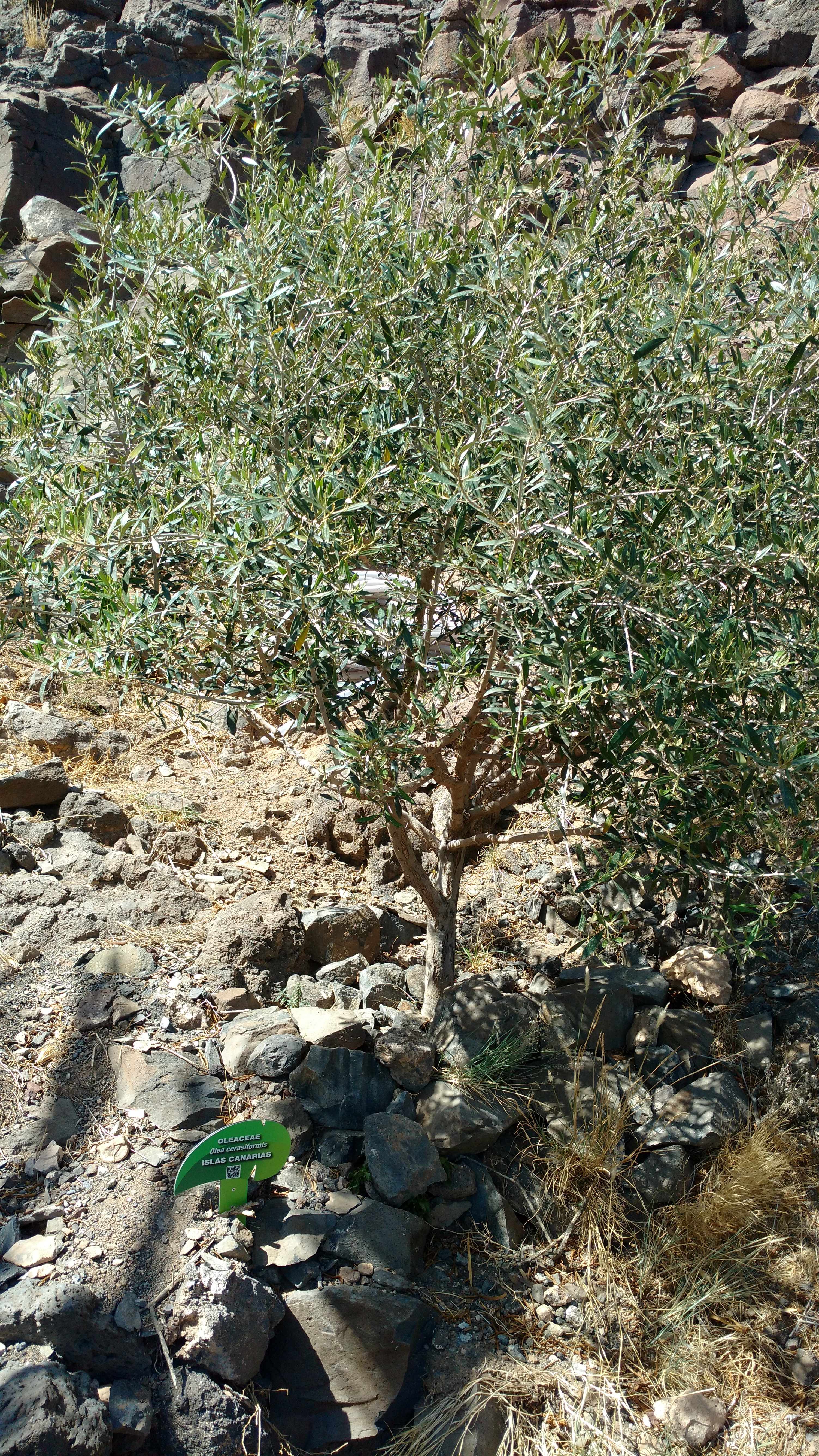 olea cerasiformis (Fuerteventura)